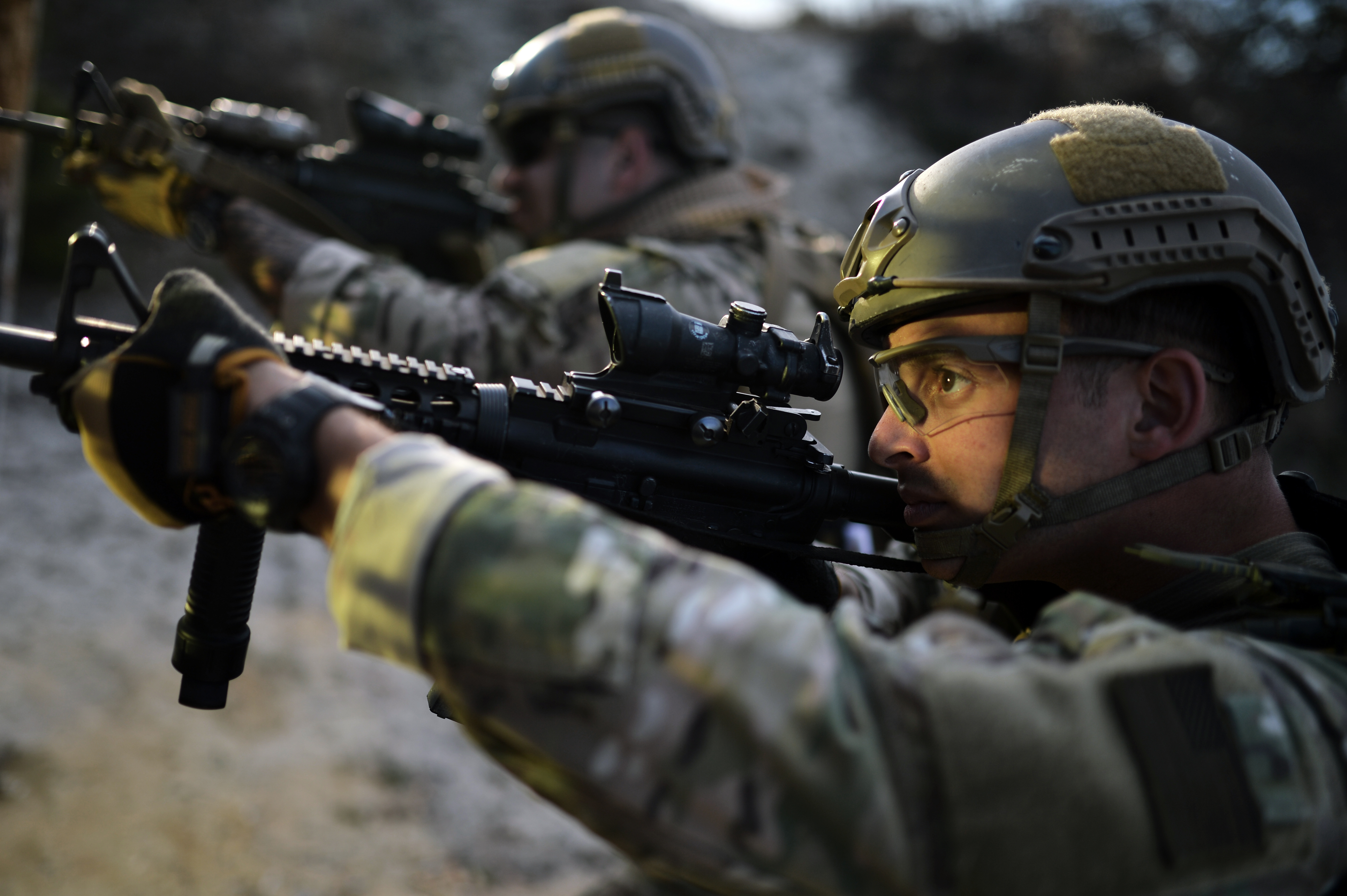 Staff Sgt. Joseph Pico, a Combat Arms Training and Maintenance instructor and Security Forces Squadron member of the 106th Rescue Wing, conducts night-firing training at the Suffolk County Police Range in Westhampton Beach, N.Y., May 7, 2015. During this training, the airmen learned small-group tactics, how to use their night-vision gear, and trained with visible and infrared designators. (New York Air National Guard / Staff Sgt. Christopher S. Muncy /released)